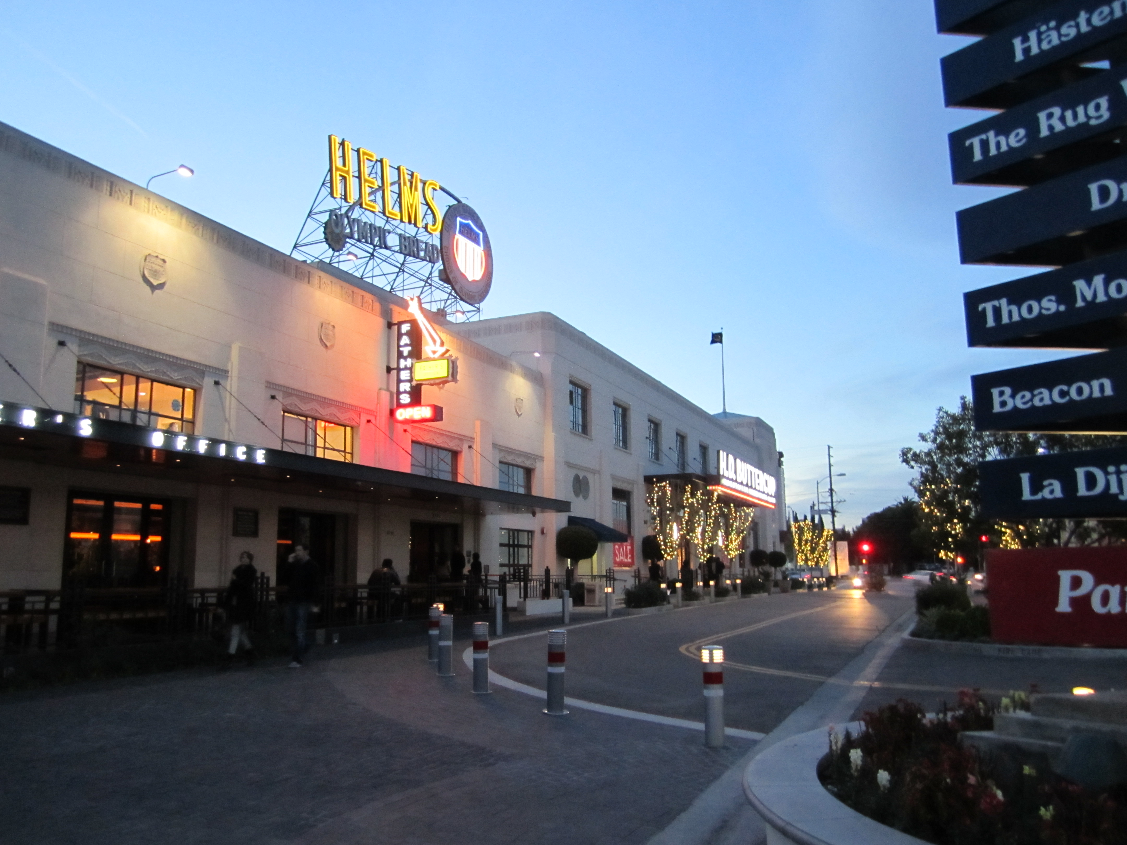 Historic Helms Bakery on Washington Blvd.